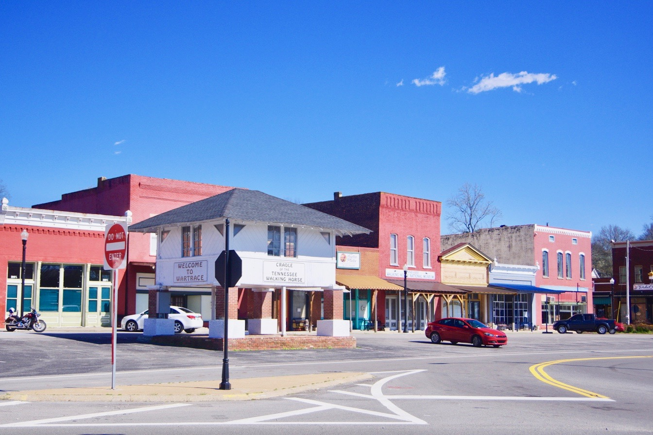 The Wartrace Well (front, left) and other buildings in downtown Wartrace, Tennessee, United States.